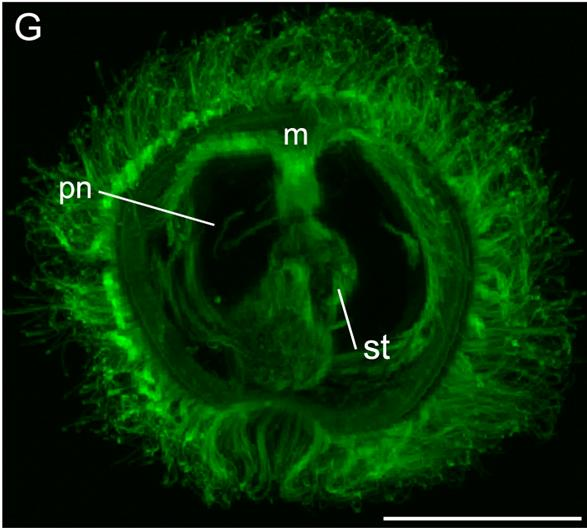 Complete trochophore larva of the annelid Pomatoceros lamarckii visualized with immnunohistochemistry with anti-acetylated tubulin, posterior view. Extensive ciliation in the oesophagus and stomach is visible